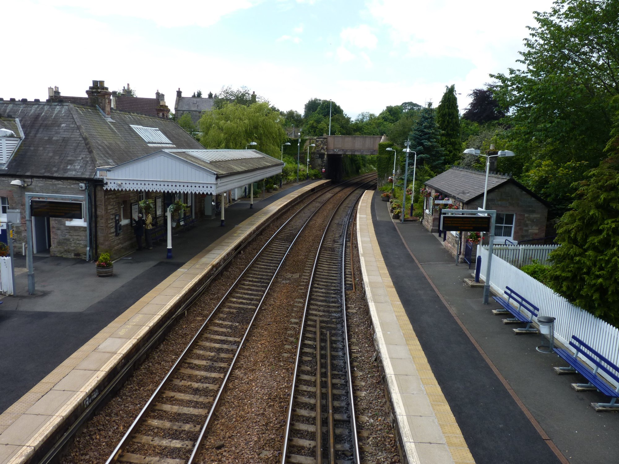 From the footbridge